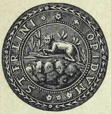 Old Coat of Arms for Stirling shown the wolf